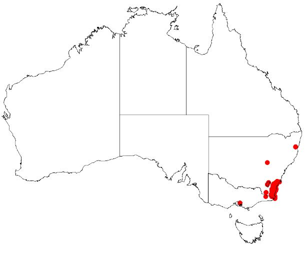 Hakea macraeana Occurrence data downloaded from AVH on 22 November 2018 using